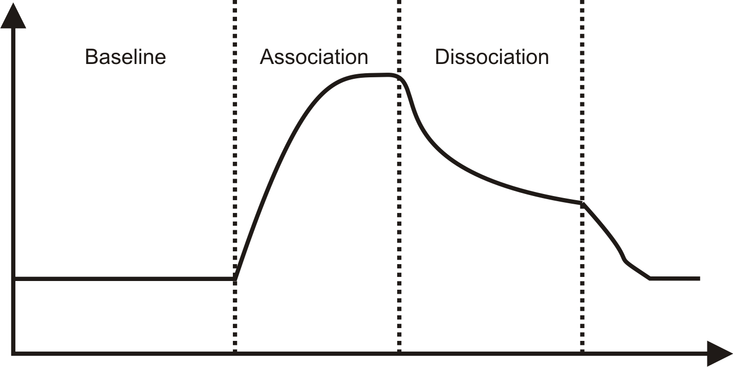 Schematic drawing of a binding curve